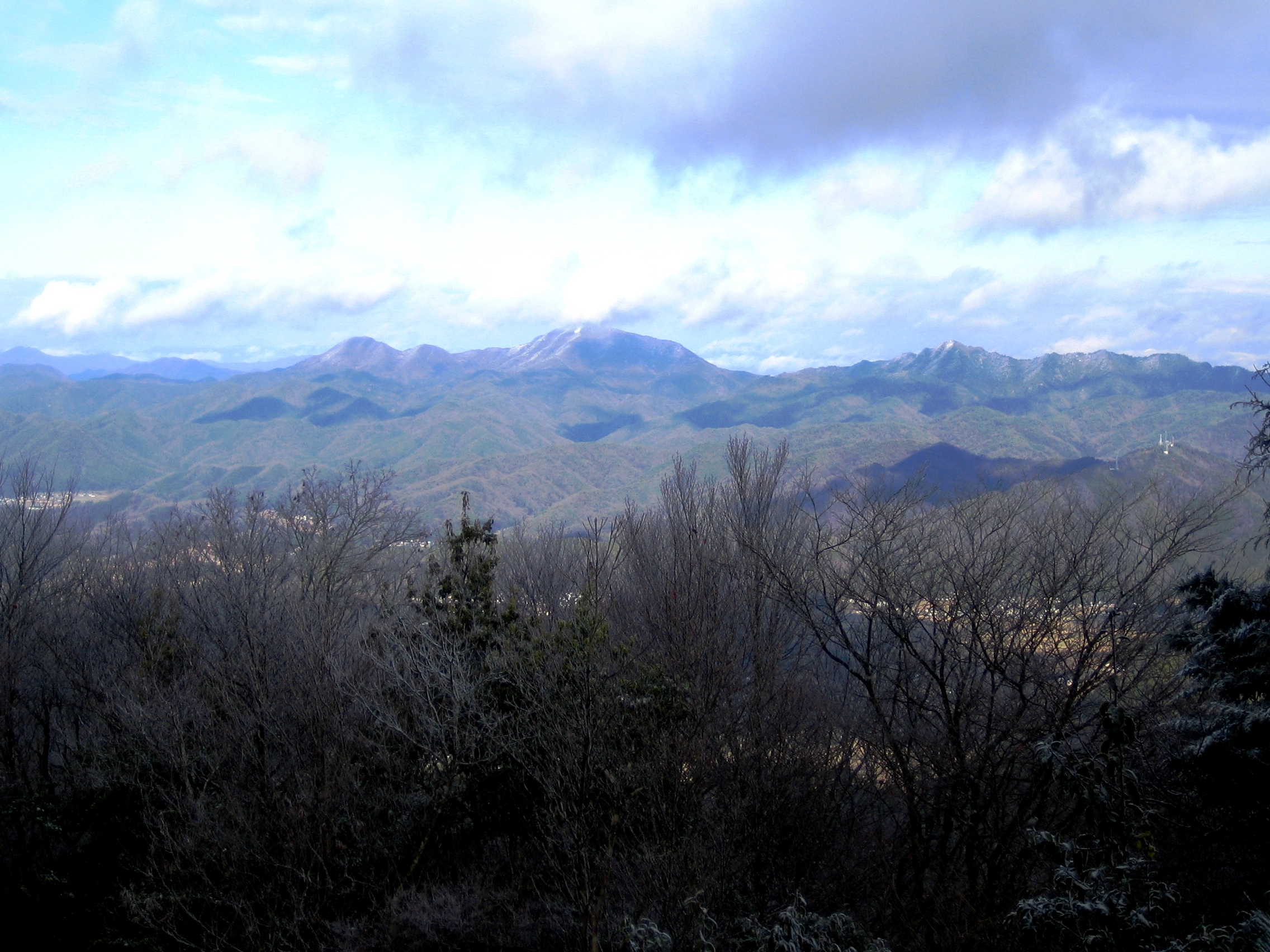 Taki Mountains as seen from the southeast. Taken from the top of Mount Yajuro in Tanbaasayama, Hyogo Prefecture, Japan.